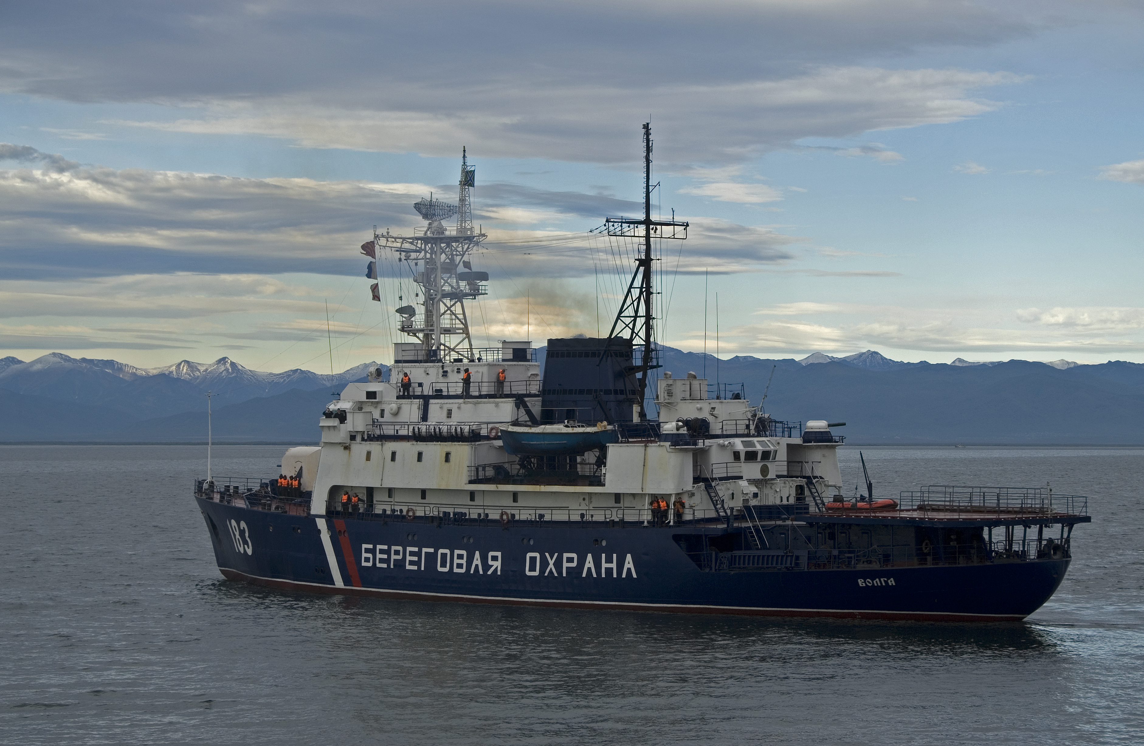 Russian Coast Guard Project 97P Border Patrol Vessel Volga (#183). The Russian Coast Guard is part of the Border Guard Service of Russia. This photo was taken by the crew of the USCGC Boutwell in Petropavlovsk, Russia during the North Pacific Coast Guard Forum in September 2007.